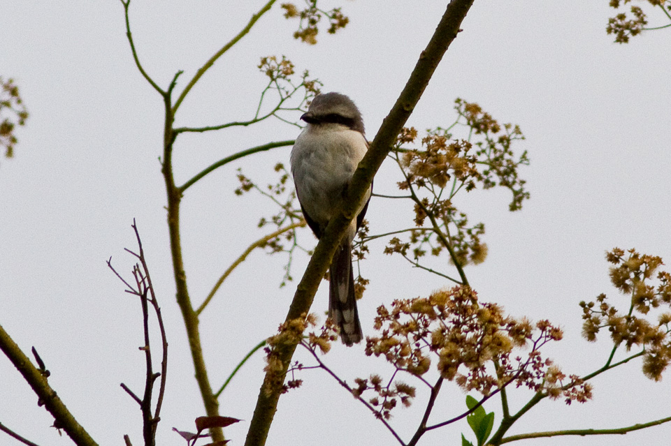 Mackinnon's Fiscal (Lanius mackinnoni)